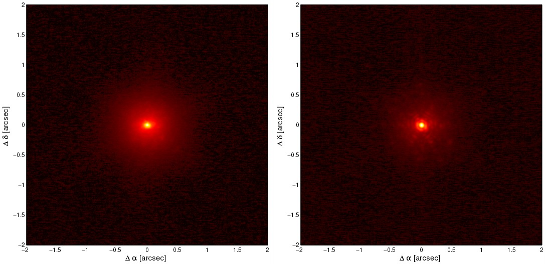 Images obtained with the NIRC instrument at the Keck II telescope on 2014 June 13 in J band (left) and K band (right). Neither band indicates the presence of any background stars that might be the source of the transits observed in the Kepler photometry of Kepler-452.